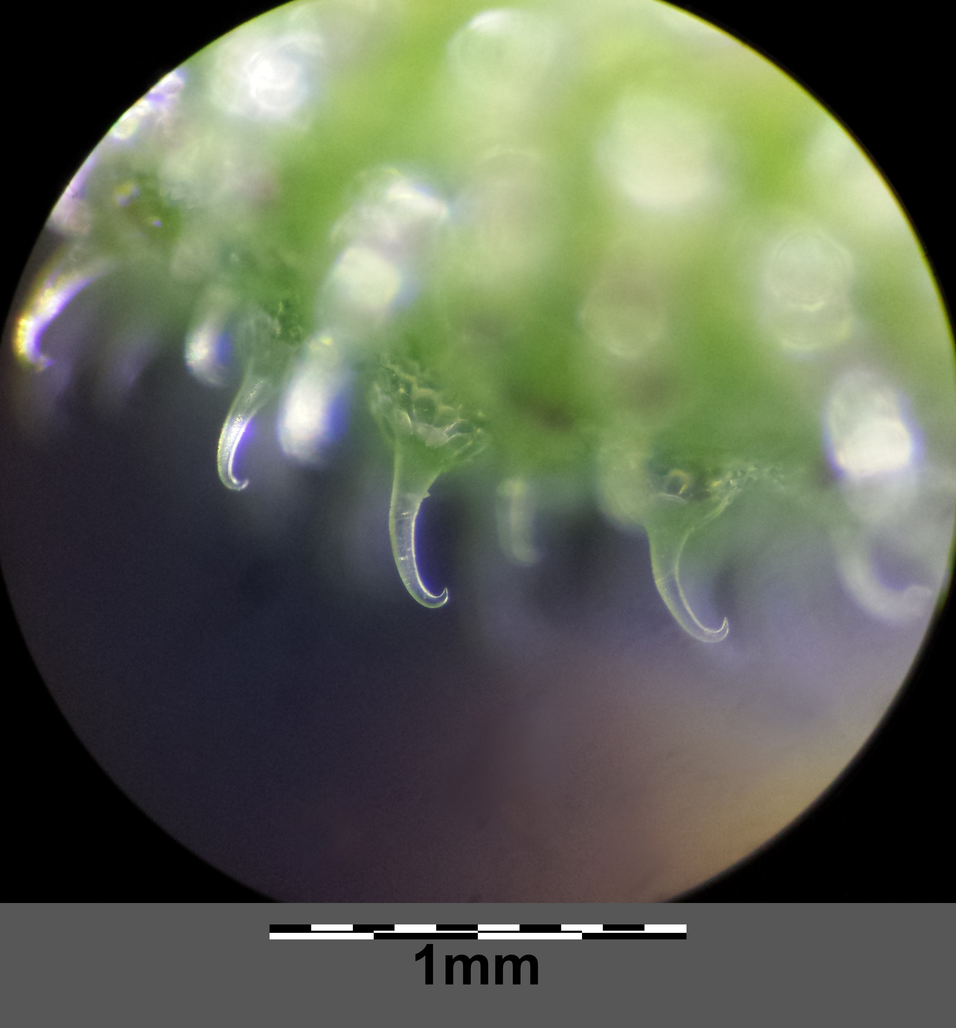 Fruit with hooked setae (detail) Taxonym: Galium aparine (s. str.) ss Fischer et al. EfÖLS 2008 ISBN 978-3-85474-187-9 Location: Steinberg near Niederhollabrunn, district Korneuburg, Lower Austria - ca. 350 m a.s.l. Habitat: field